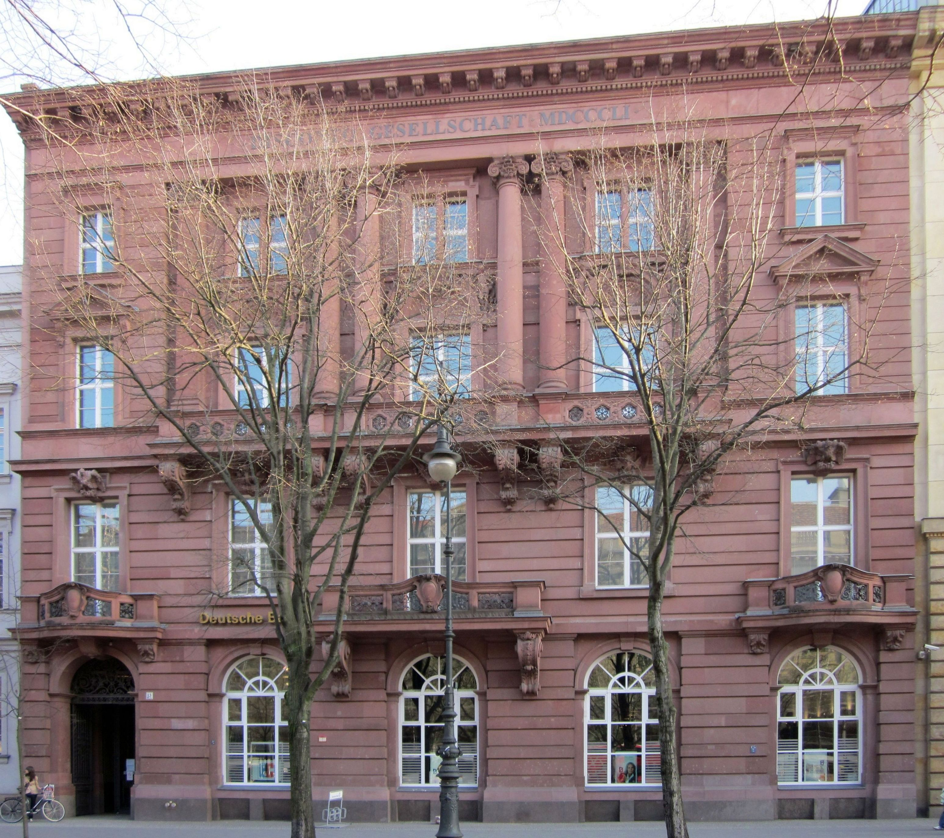 The former building part II of the banking house complex of the Disconto-Gesellschaft, Unter den Linden 13, in Berlin-Mitte. It was built from 1889 to 1891 to a design by the architects Hermann Ende und Wilhelm Böckmann and as an annex to a building on Behrenstraße. The building is now owned by Deutsche Bank. It has been designated as a historic landmark.